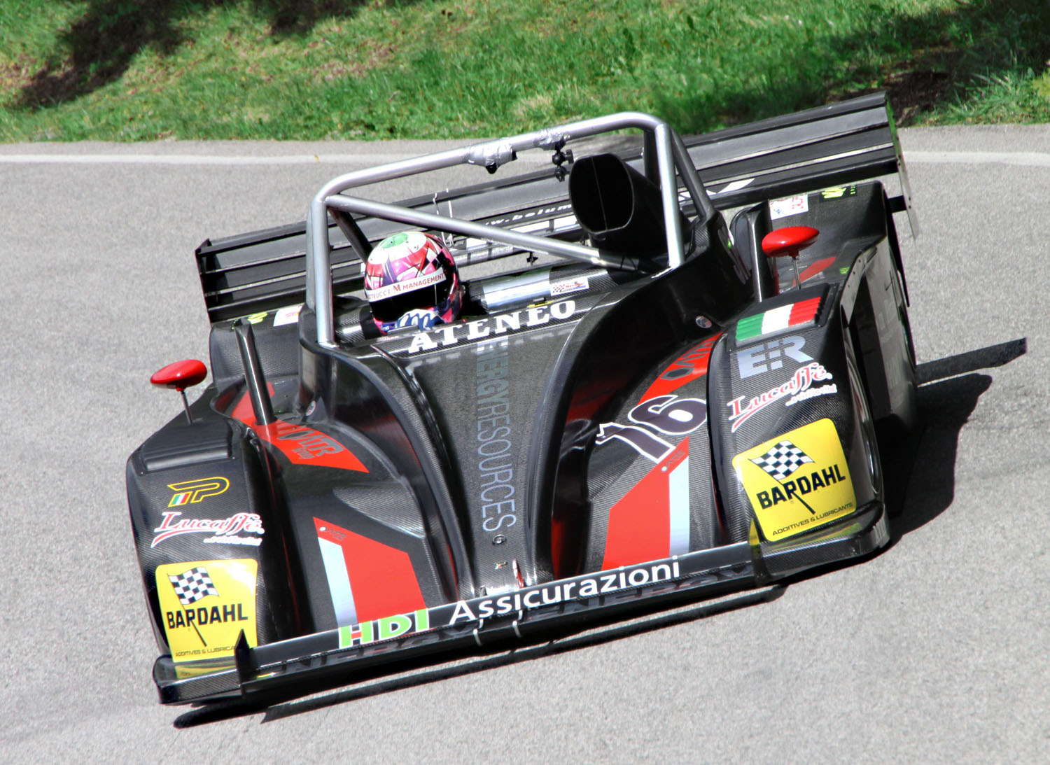 Picchio P4/E2 at Alpes del Nevegal, hill climb championship